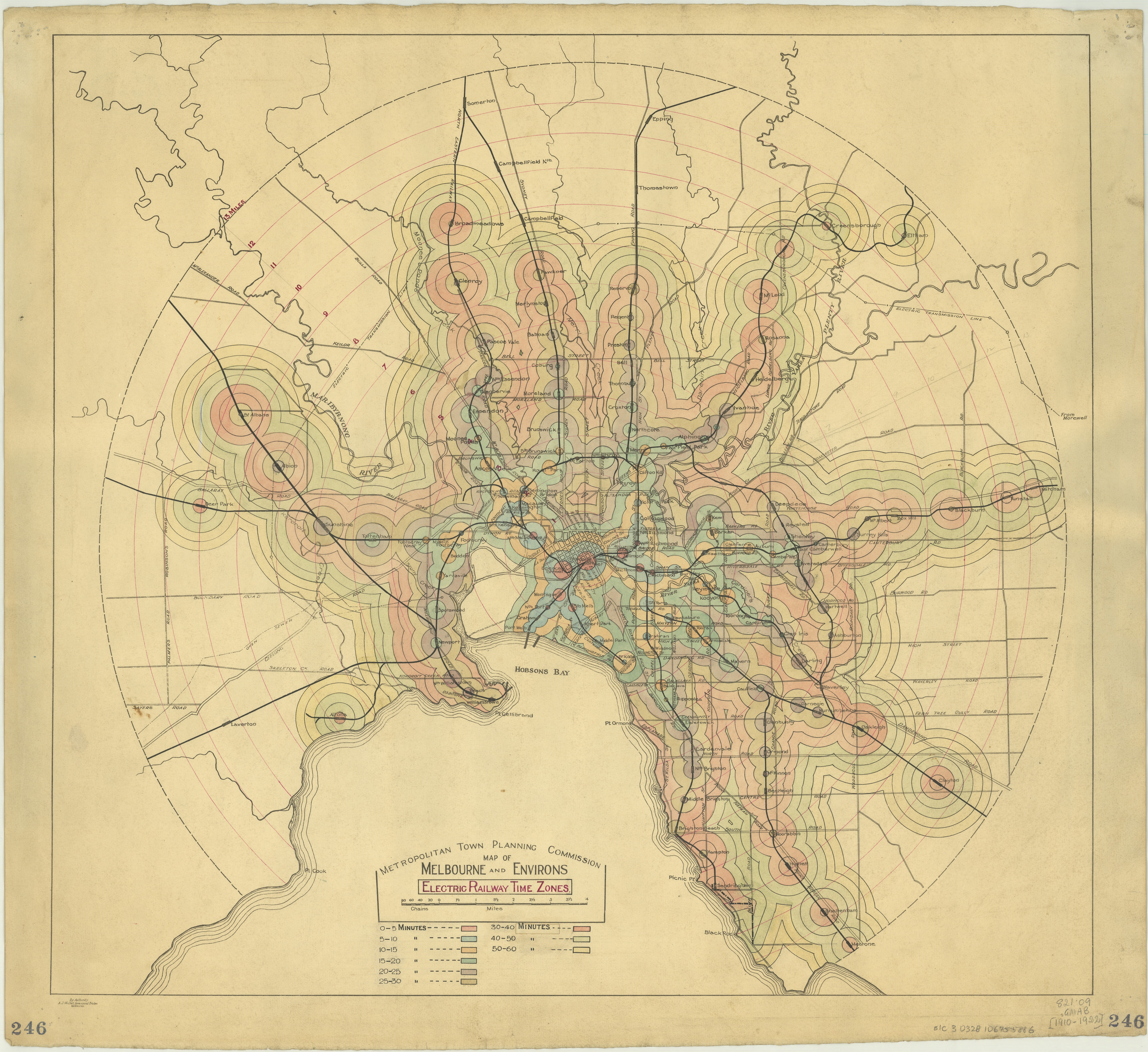 Isochrone map of Melbourne travel times to the city centre by tram or train. Similar to Map of Melbourne and environs minimum railway or tramway time zones in the same publication, but with more time margins.